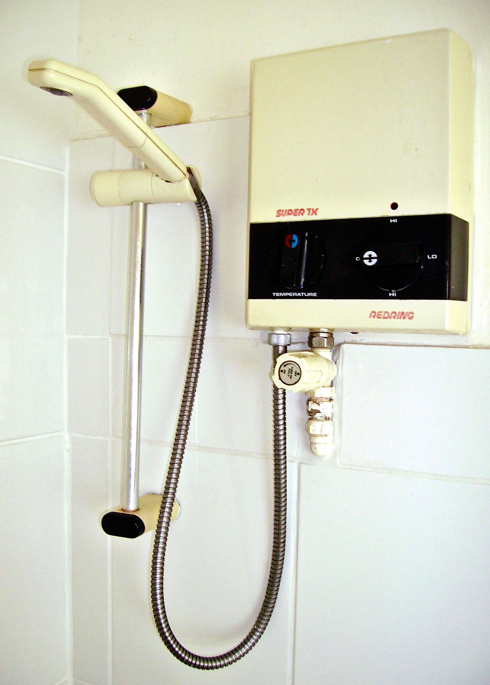 shower in the Welsh town of Borth